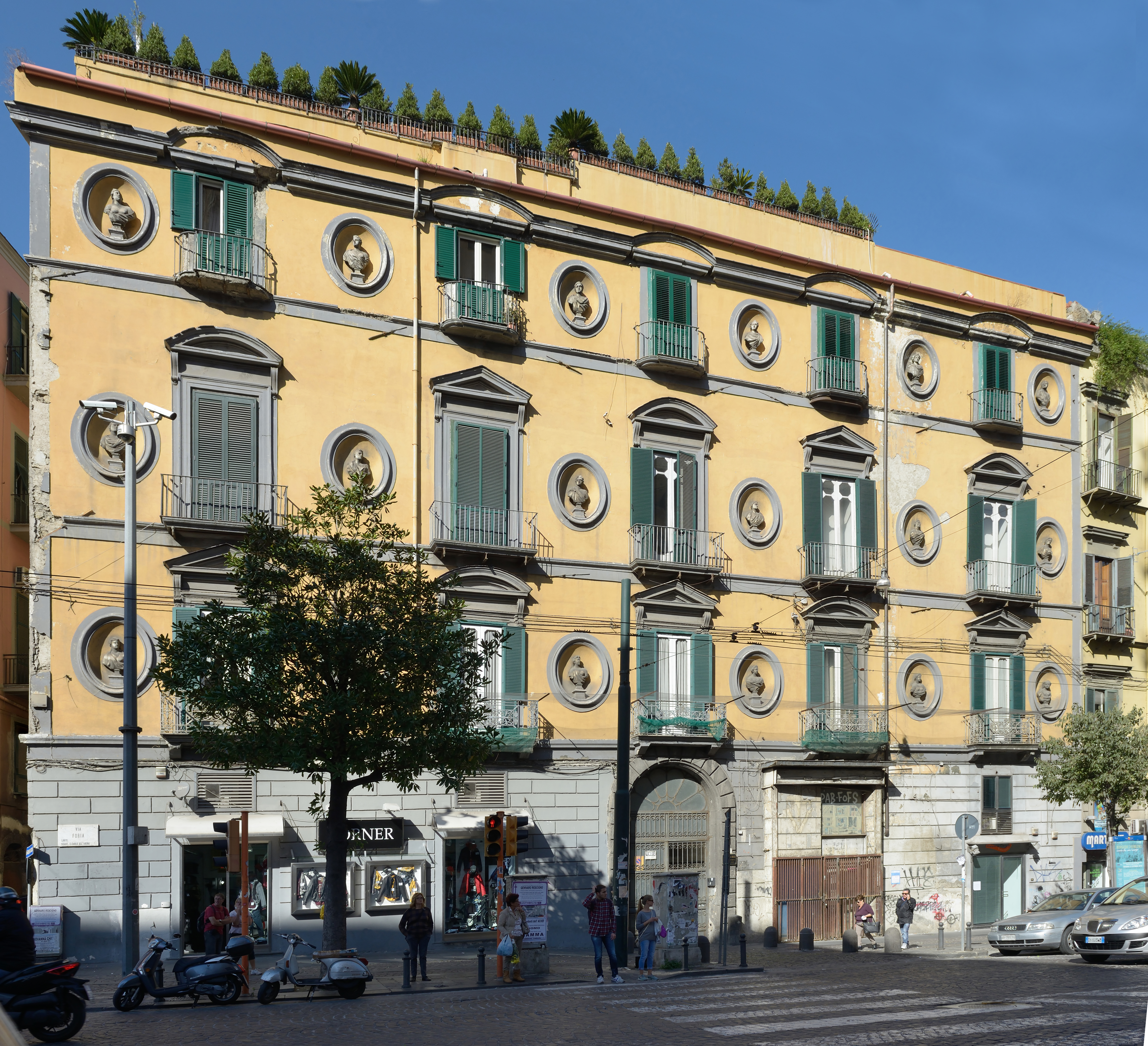 Palazzo dello Schiantarelli in Naples.